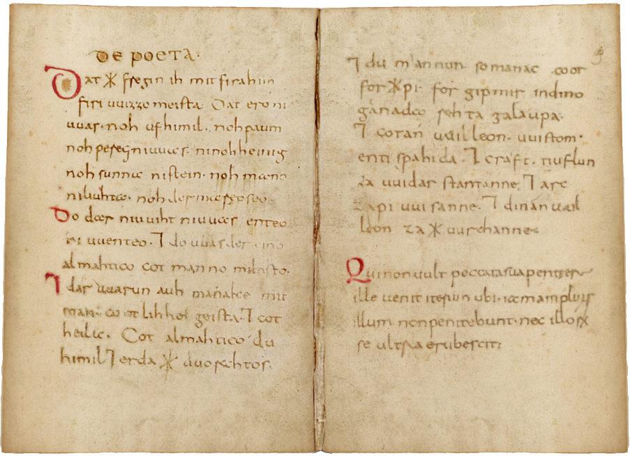 Wessobrunner Gebet (processed image: cut out, colorised red ink, library stamp and lineation and foliation obscured. The original has a hole in the parchment on the lower margin of the left page, a Munich library stamp on the lower margin of the right page, and the foliation "66" in the upper right corner. The squiggle at the end of the first line in fol. 66v is also not present in the orignal) The processed image was uploaded in 2007, it is also found on , but it is unclear if has taken it from commons or vice versa.